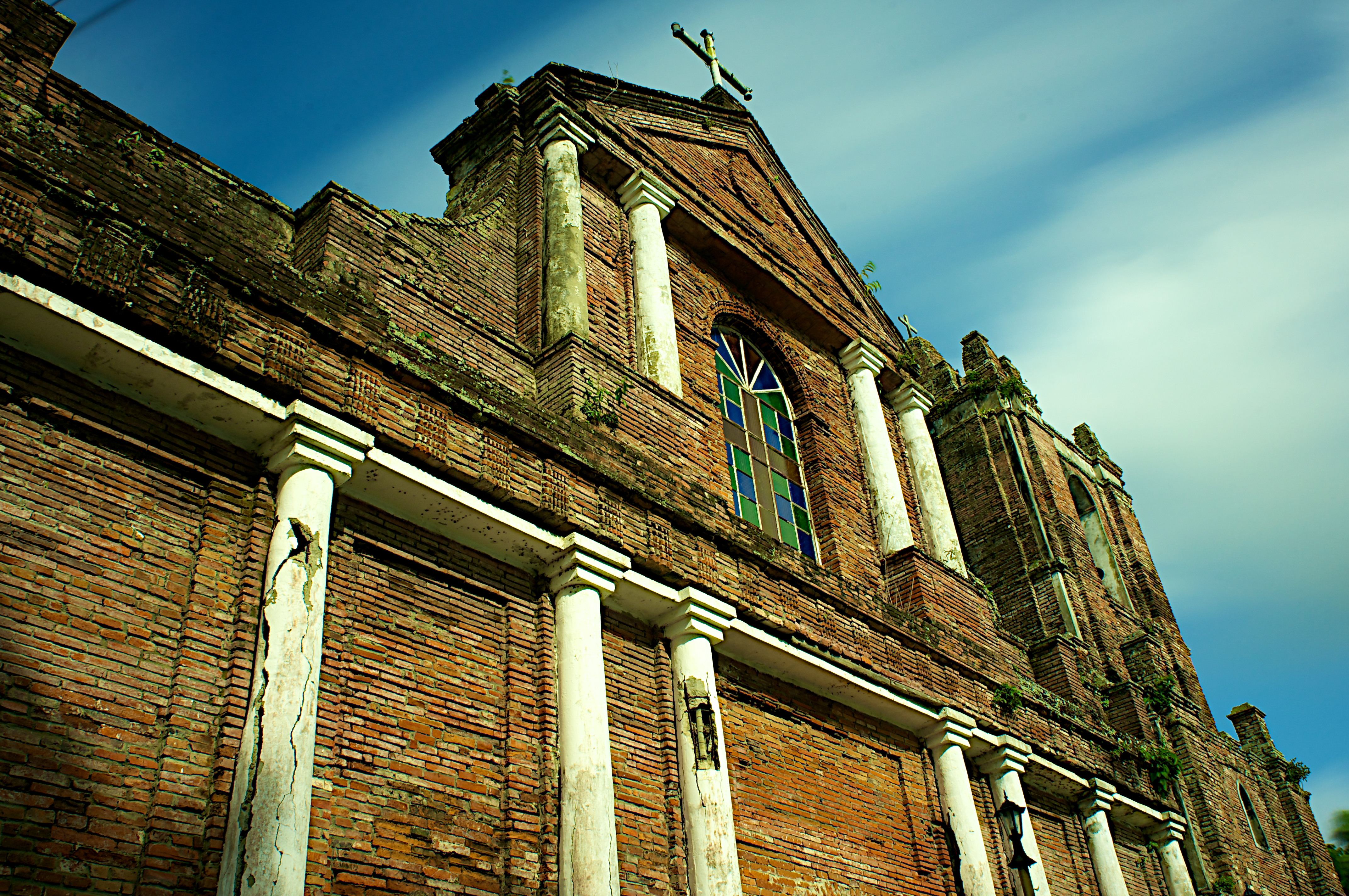 Long exposure shot at the Nueva Segovia Church.